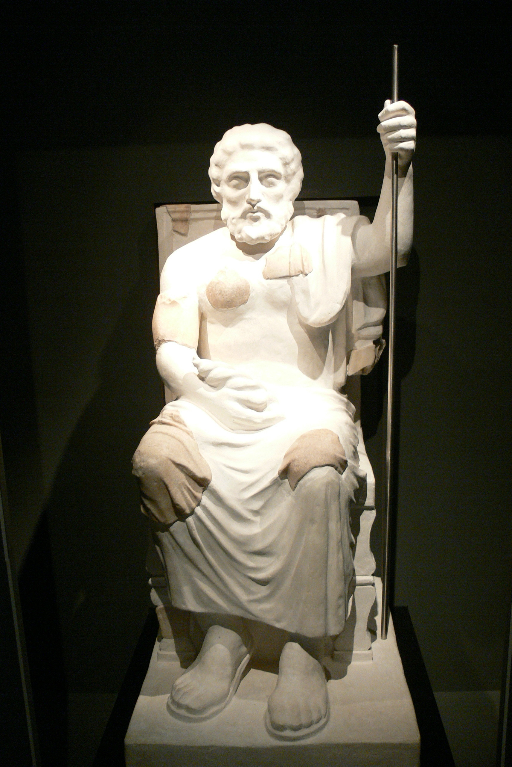 Museum Carnuntinum ( Lower Austria ). Statue ( 2nd century ) of enthroned Iupiter - reconstruction using original parts.